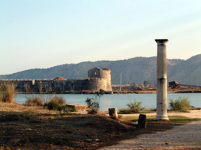 Triangle Fort in Butrint not far from Ali Pasha Butrint castle Ali Pasha. In Albania.